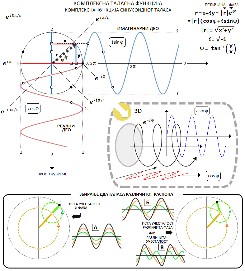 КОМПЛЕКСНА ТАЛАСНА ФУНКЦИЈА